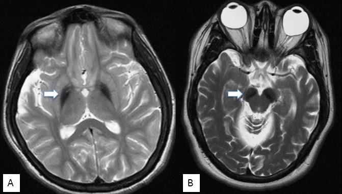 T2-weighted MRI sequences demonstrating globus pallidus hypointensity (A) and hypointensity of the substantia nigra (B)(arrows). In BPAN, the substantia nigra is usually more hypointense relative to the globus pallidus, indicating higher levels of iron. Note: The illustrated findings are not typically present in early childhood, when imaging may be normal or show only hypomyelination, a thin corpus callosum, or cerebral/cerebellar volume loss.